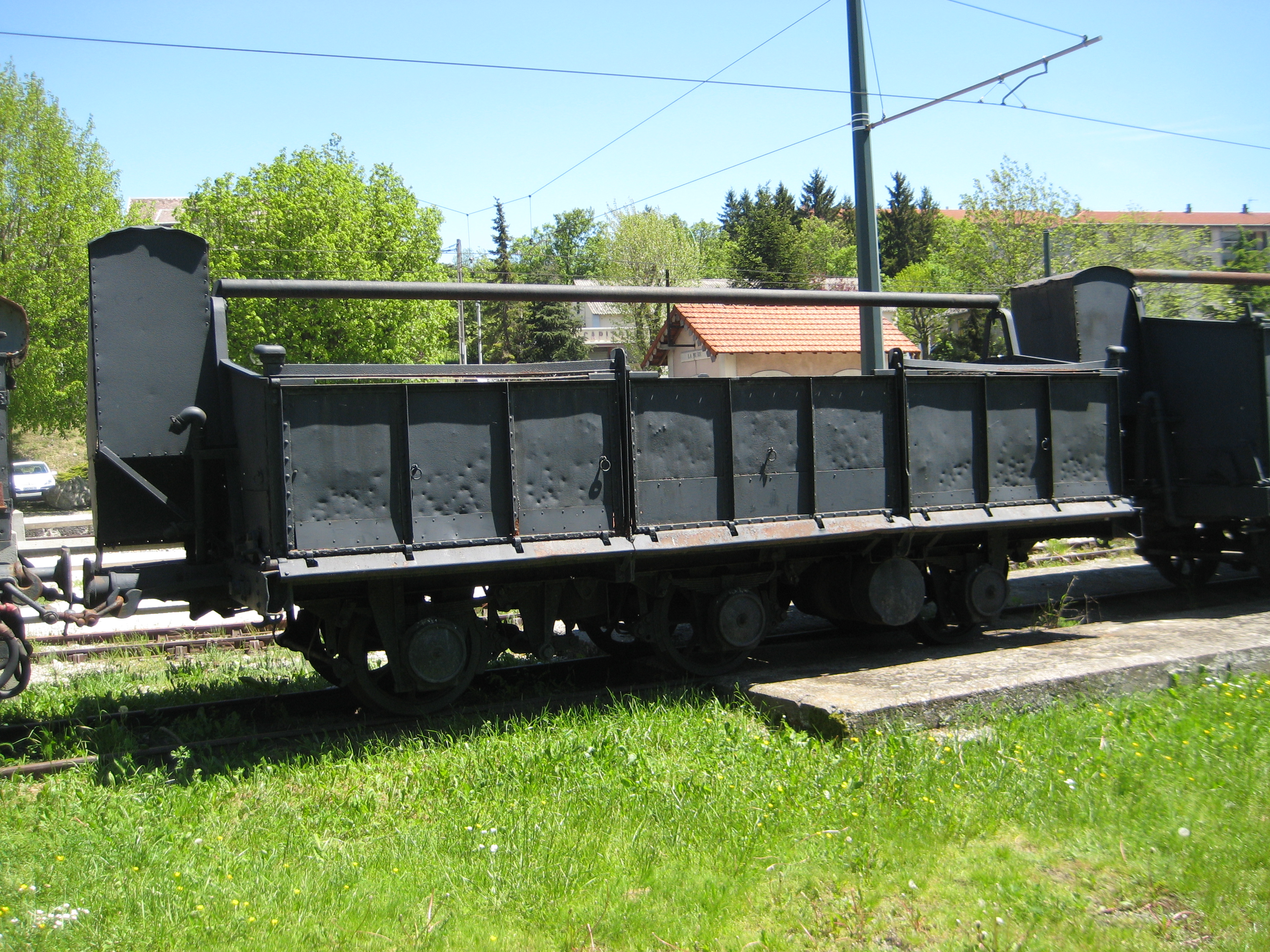 Three-axle 15 tonne coal car. 100 were built between 1909 and 1913.